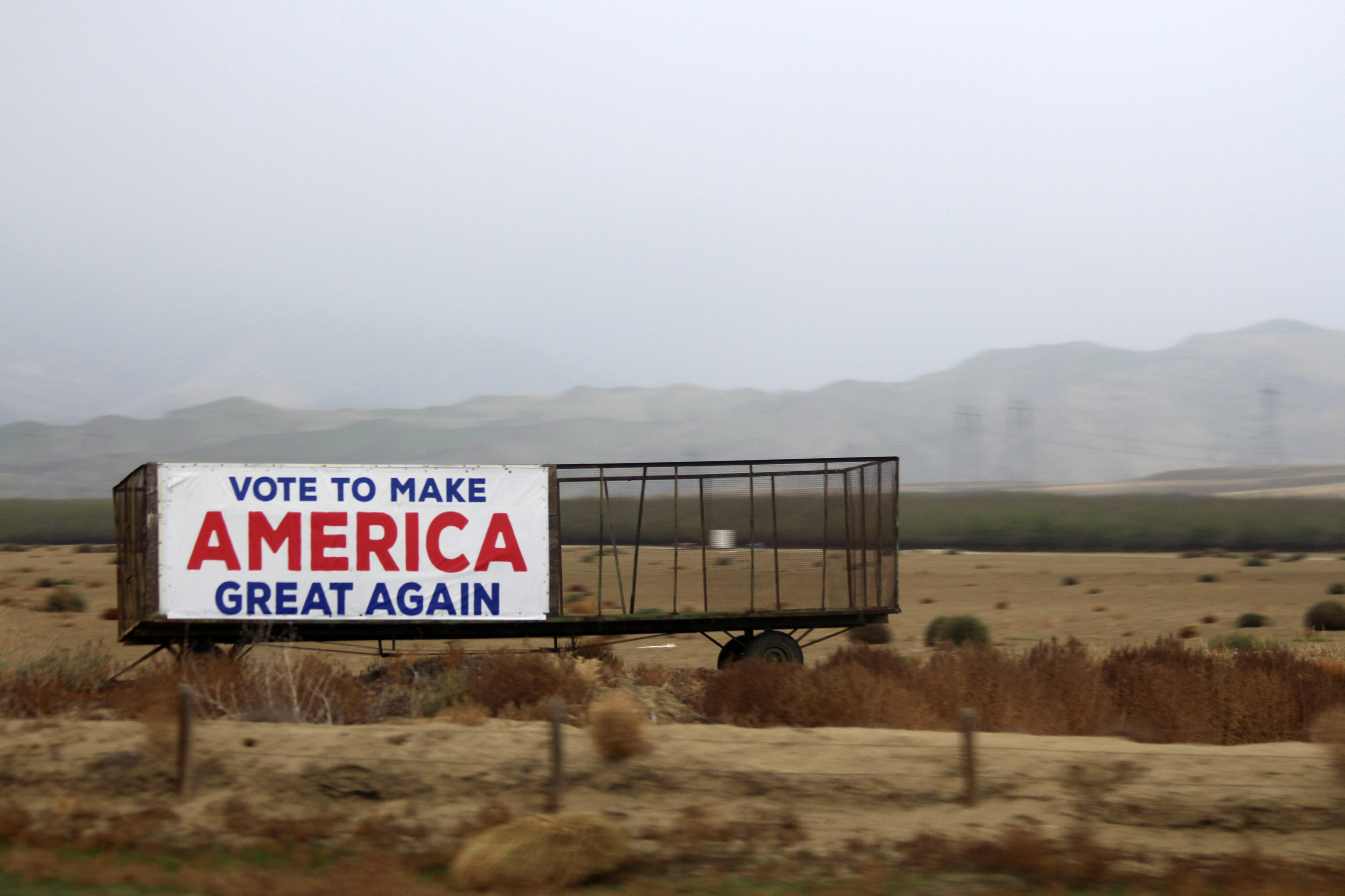 A banner in California spelling out "Vote To Make America Great Again", a remnant of Donald Trump's successful presidential campaign in November 2016.